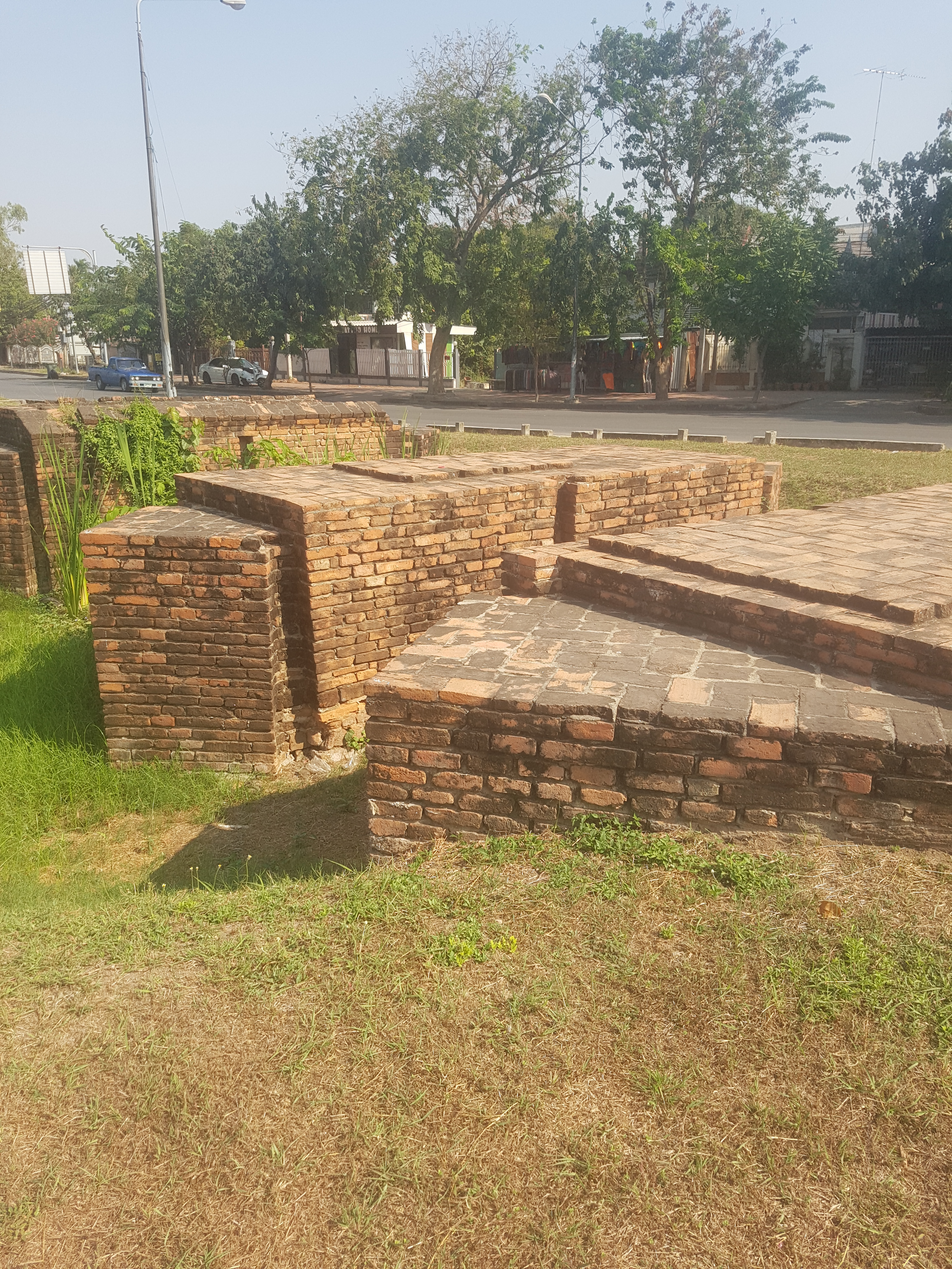 Pa Than Bridge ("Charcoal Market Bridge"), an ancient bridge in front of Wat Ratchaburana in the Ayutthaya Historical Park, Phra Nakhon Si Ayutthaya Province, Thailand.